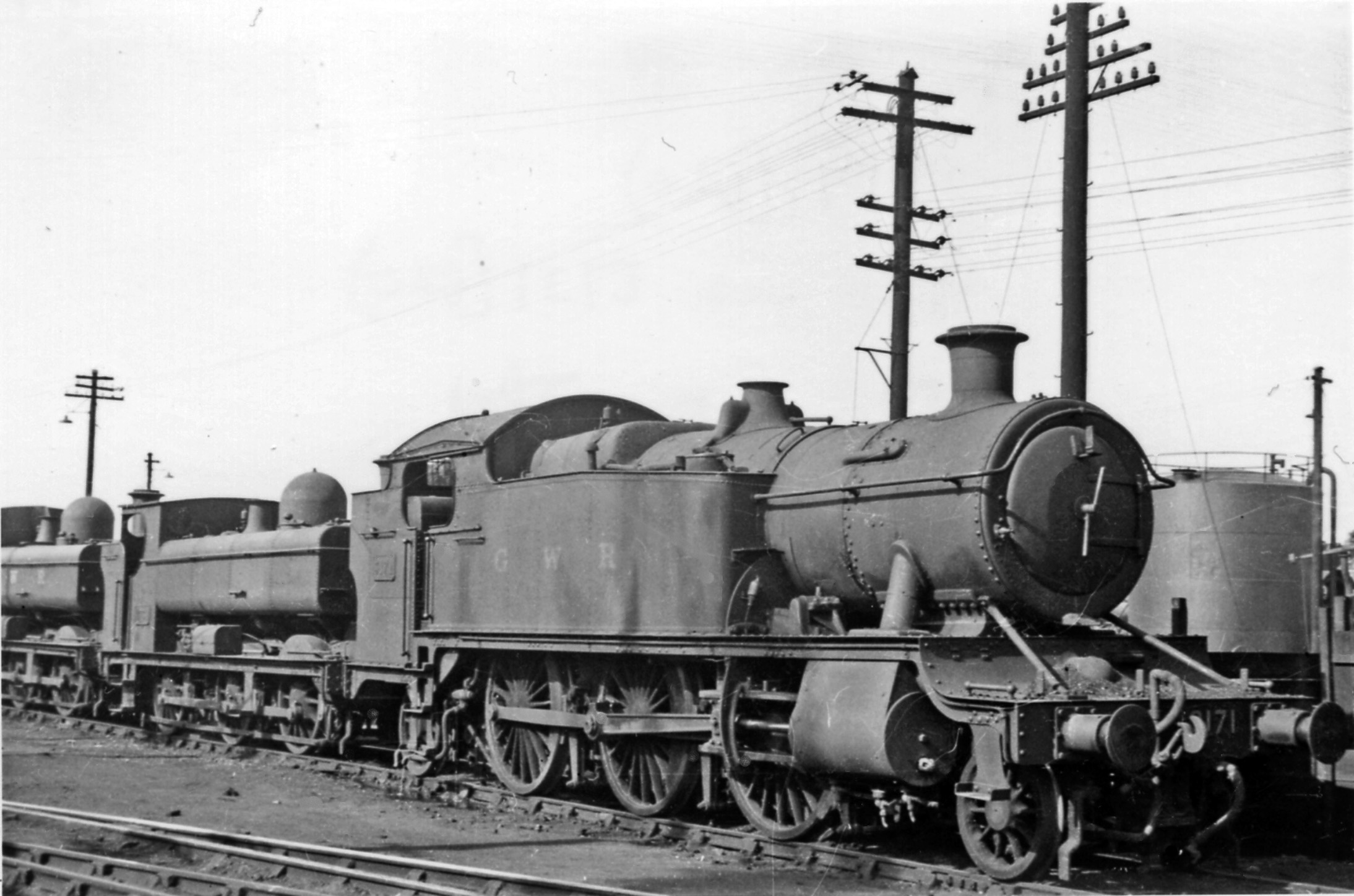 A '3150' 2-6-2T at Gloucester GW Locomotive Depot. Normally employed banking Up freight trains from Brimscombe up to Sapperton Tunnel, No. 3171 (built 10/07, withdrawn 7/57) rests in the Depot Yard along with 0-6-0 Pannier tanks. This was just after Nationalisation, so 'GWR' still on the tank sides and no smokebox number-plate. Gloucester (Horton Road) Depot was in the Worcester Division and had an allocation in 1947 of 63:- 15 4-6-0, 4 4-4-0, 2 2-8-0 (1 LMS-type, 1 ex-WD), 8 2-6-0, 4 0-6-0, 5 2-6-2T, 3 0-6-2T, 17 0-6-0T and 5 0-4-2T.